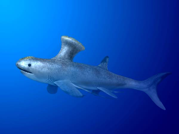 Life reconstruction of Akmonistion zangerli